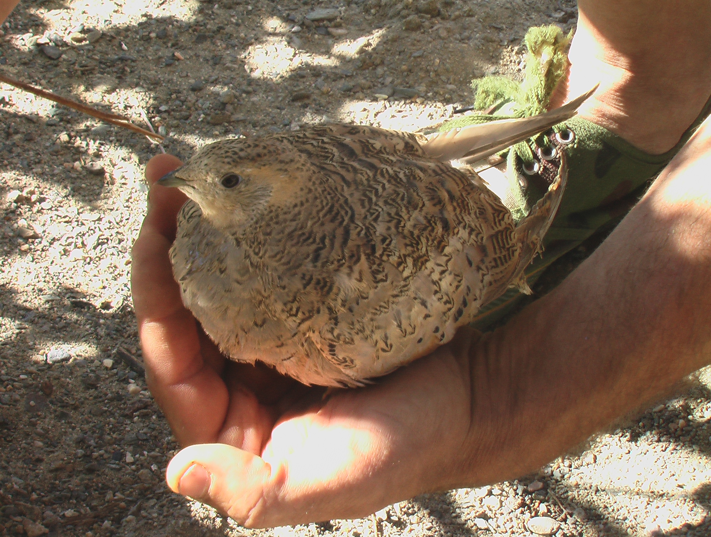 Syrrhaptes paradoxus in a field, Bayantooroi oazis, Gobi desert, Govi-Altai aimag, west Mongolia